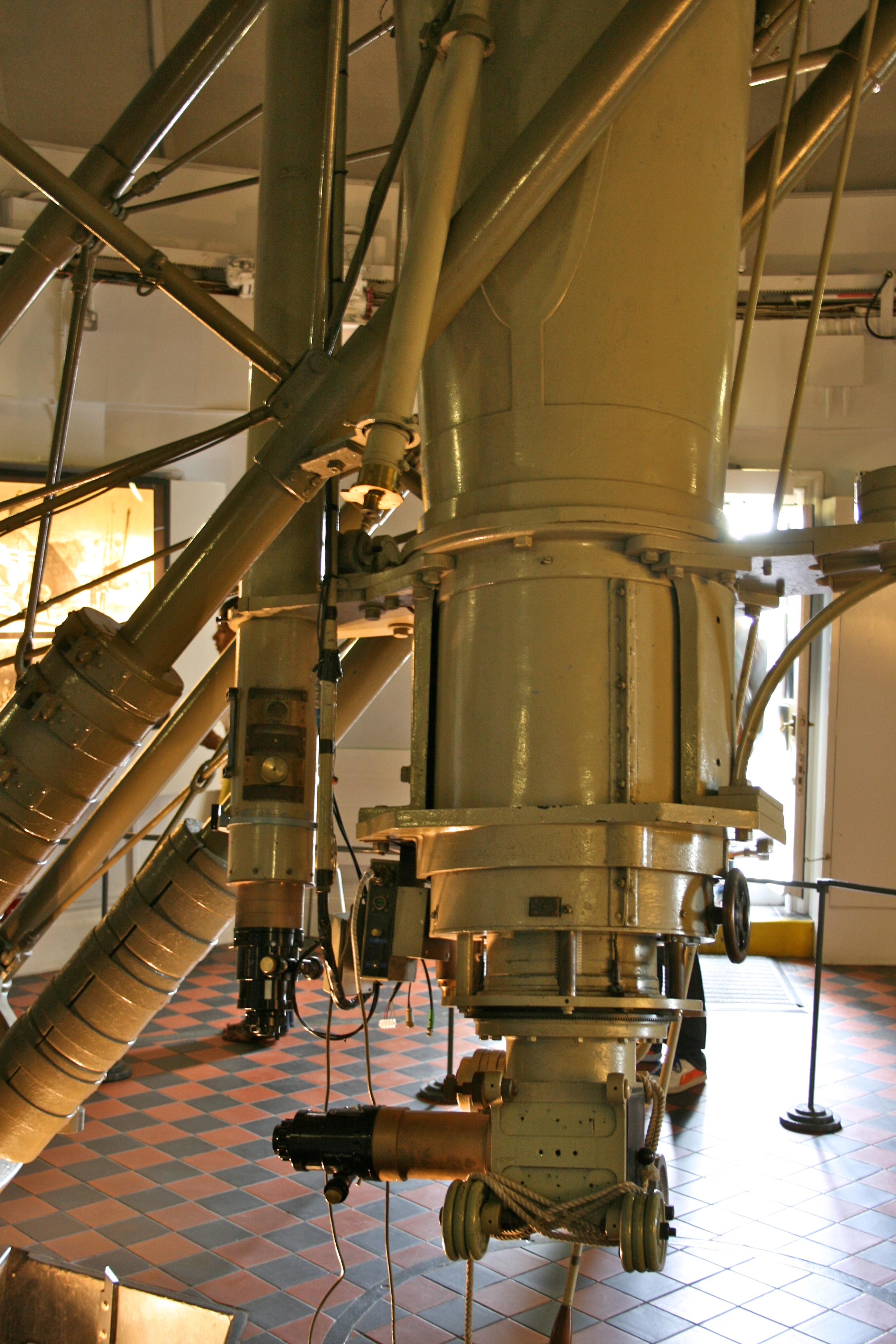 28" telescope at the Royal Observatory, Greenwich